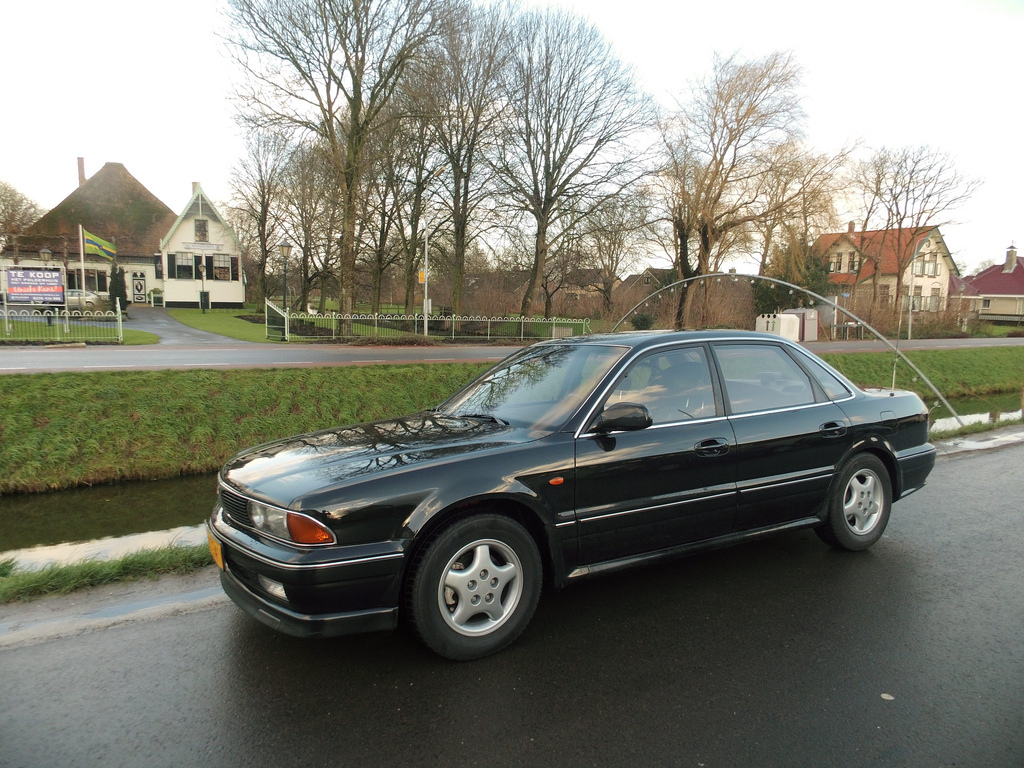 Mitsubishi Sigma